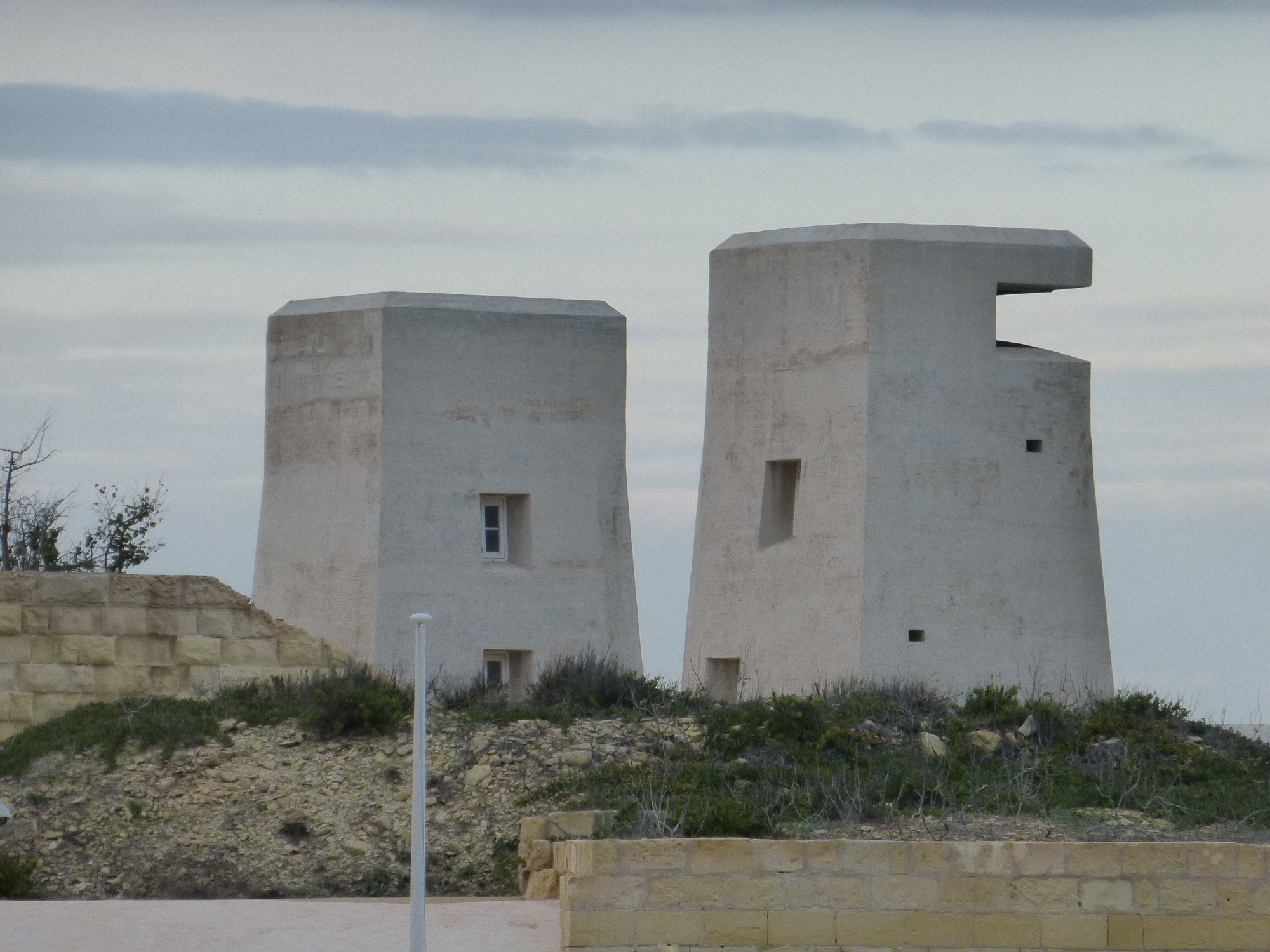 Concrete towers for directing fire for twin 6 Pounder guns in World War II. Fort St Elmo in Valletta (Malta)